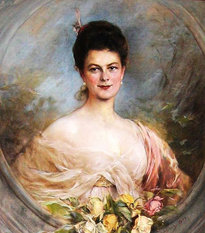 Portrait of Sophie Chotek (1868-1914)